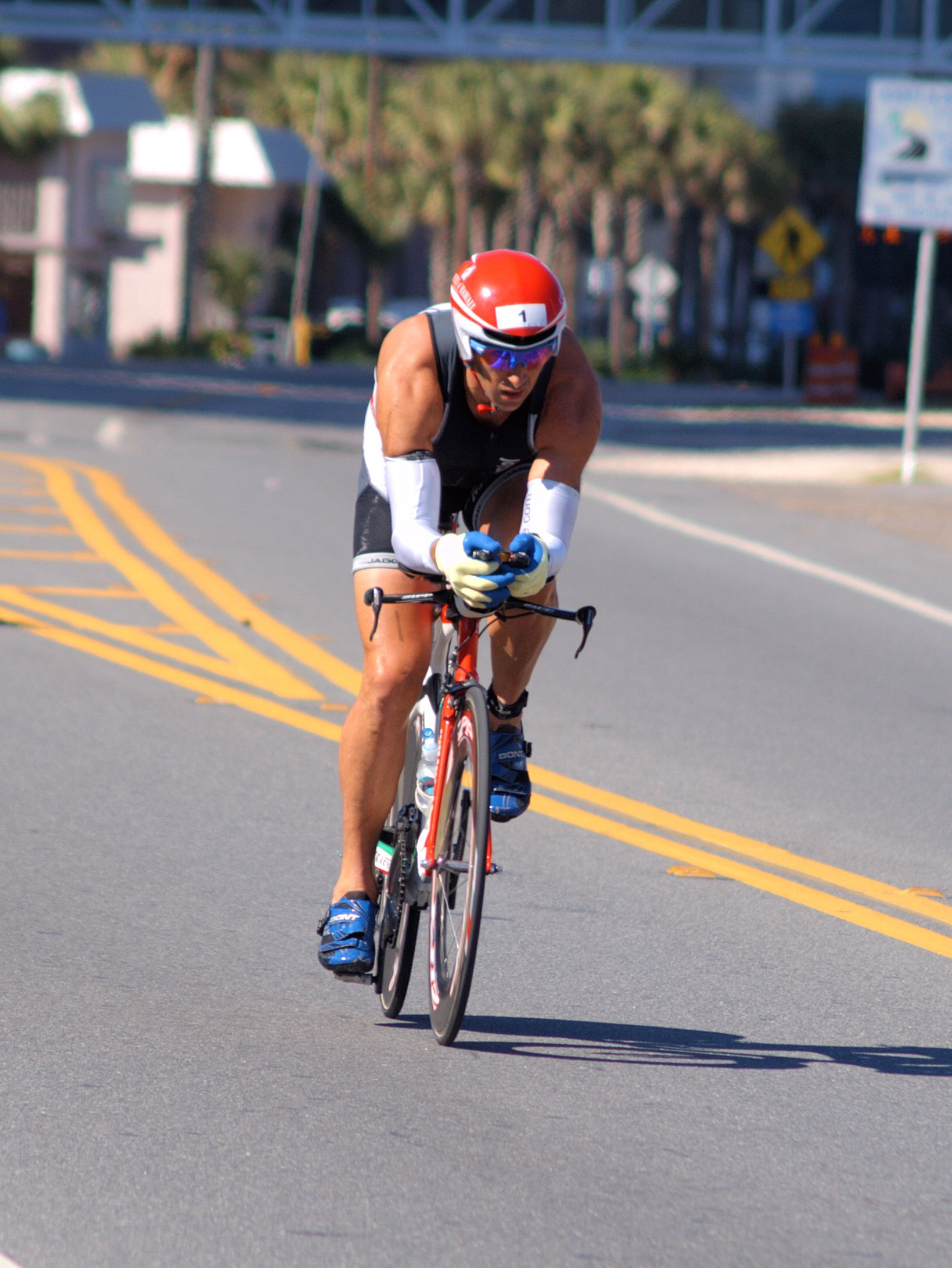 Chris McDonald at Ironman Florida 2010